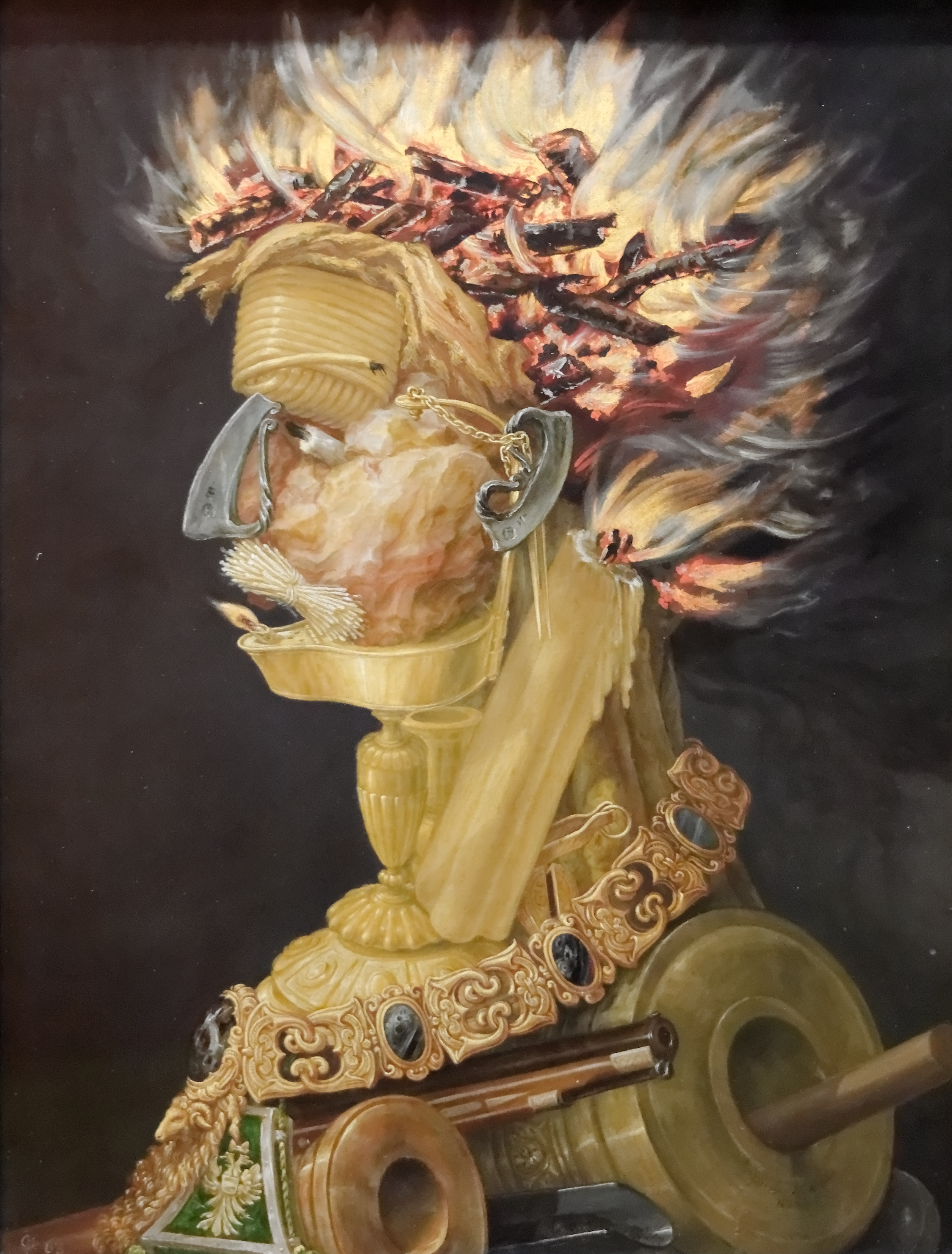 The allegory of Fire combines objects that are related to fire. The cheek is formed by a large firestone, the neck and chin are formed by a burning candle and an oil lamp, the nose and ear are contoured by firesteels; a blond moustache is formed by a crossed bundle of wood shavings for kindling, the eye is an extinguished candle stub, the forehead area is a wound-up fuse, the hair of the head forms a crown of blazing logs. The breast is composed of fire weapons: mortar and canon barrels together with the respective gunpowder shovel and a pistol barrel. Prominently positioned in the picture is the collar of the Order of the Golden Fleece, beneath which the imperial double-eagle can be seen: a clear reference to the Habsburg House and the beneficiary of the series, Emperor Maximilian II.